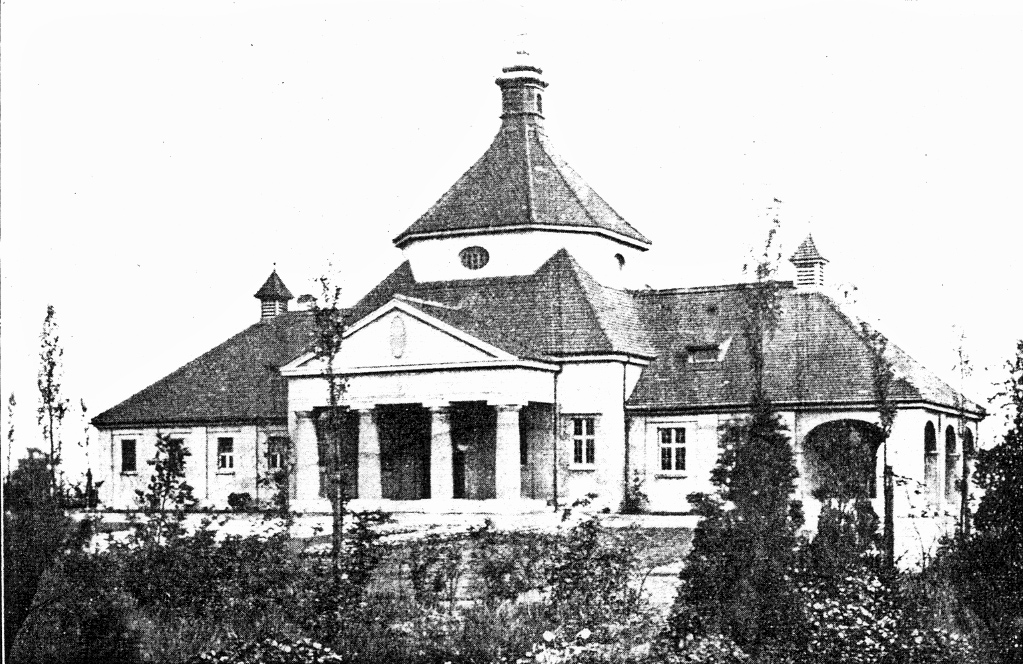 The Chapel of the South-Cemetery Herne in Germany in 1912